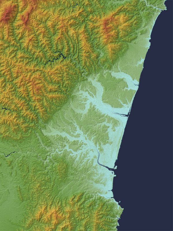 Miyazaki Plain in Miyazaki Prefecture, Kyushu, Japan.